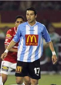 A close up on Abdelhameed Shabana from his game against El-Ahly in Egyptian Premier league